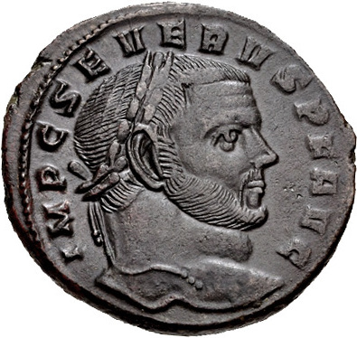 Severus II. AD 306-307. Æ Follis (27mm, 11.78 g, 6h), obverse. Aquileia mint, 2nd officina. IMP C SEVERUS PF AUG, Laureate head right RIC VI 76b.